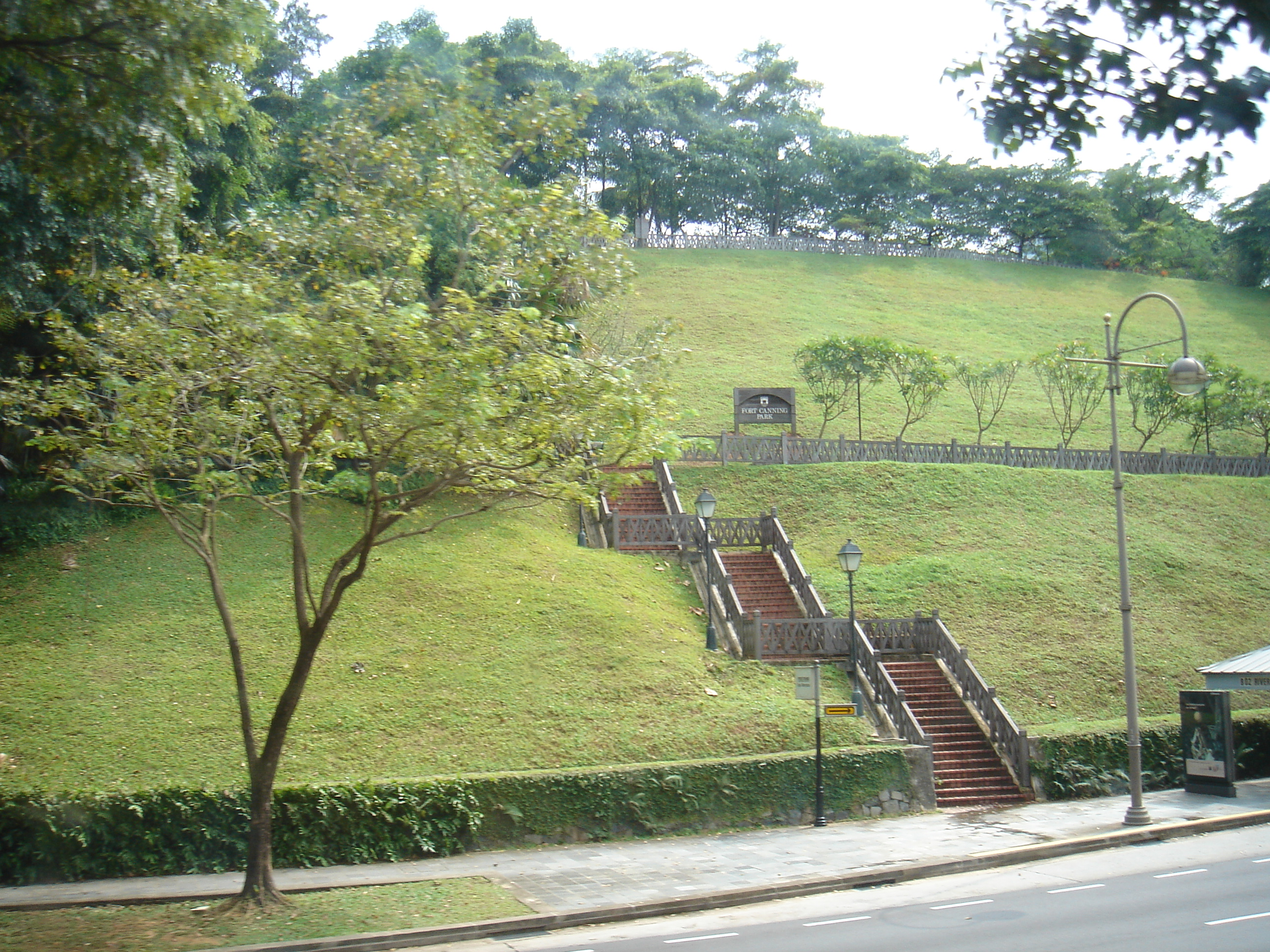 Entrance to the Fort Canning Park, Singapore.